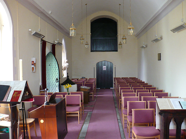 Interior of Goldcliff Parish Church An old church with a modernised interior.